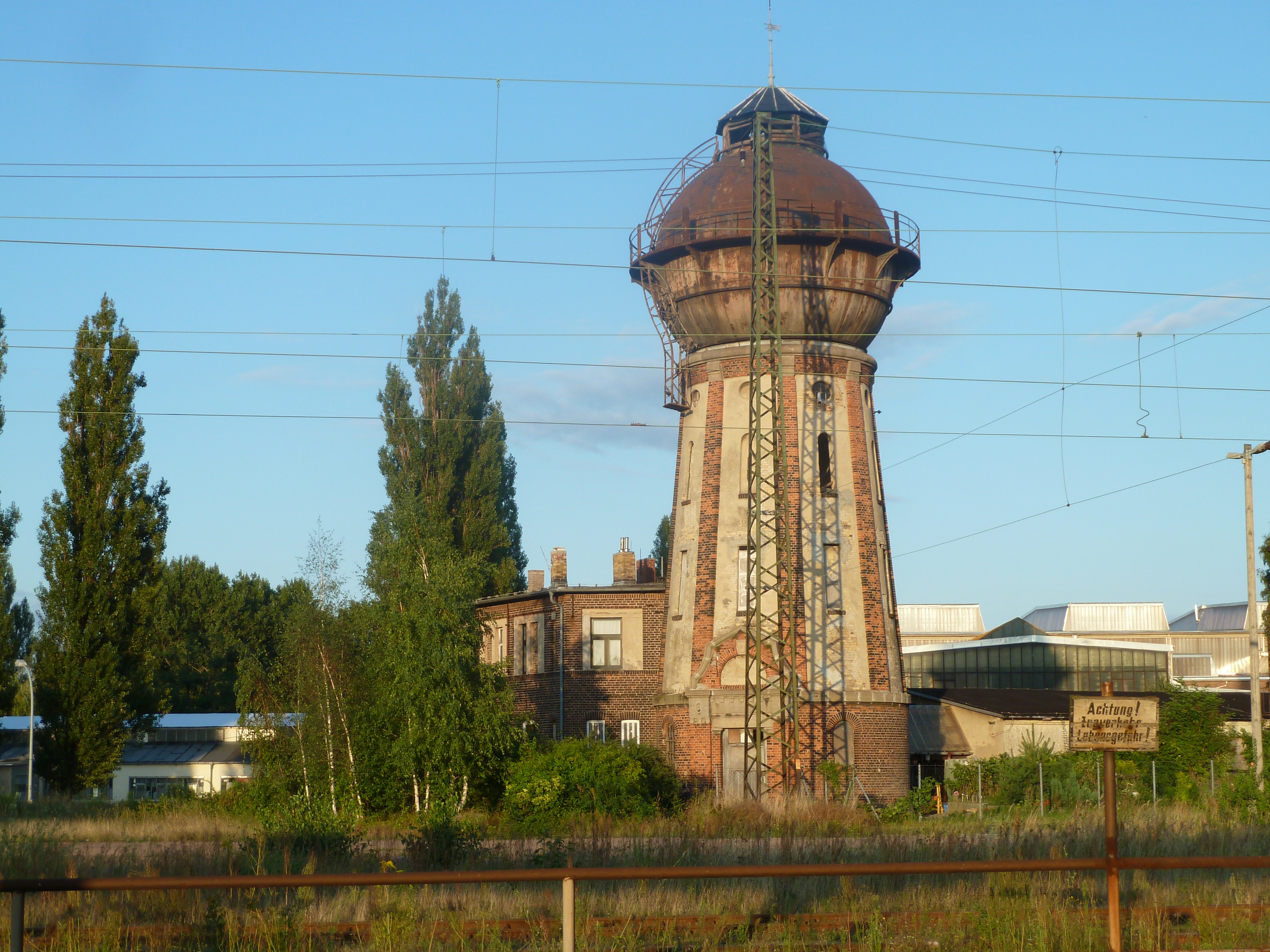 Railway water tower in Köthen, cultural heritage, view from station platform